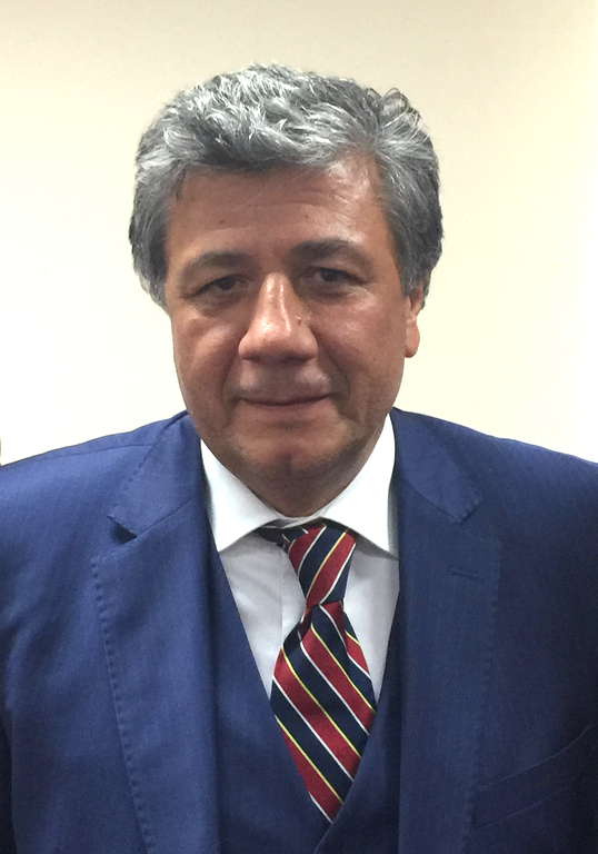 Mustafa Balbay, Member of Parliament of Izmir from the CHP